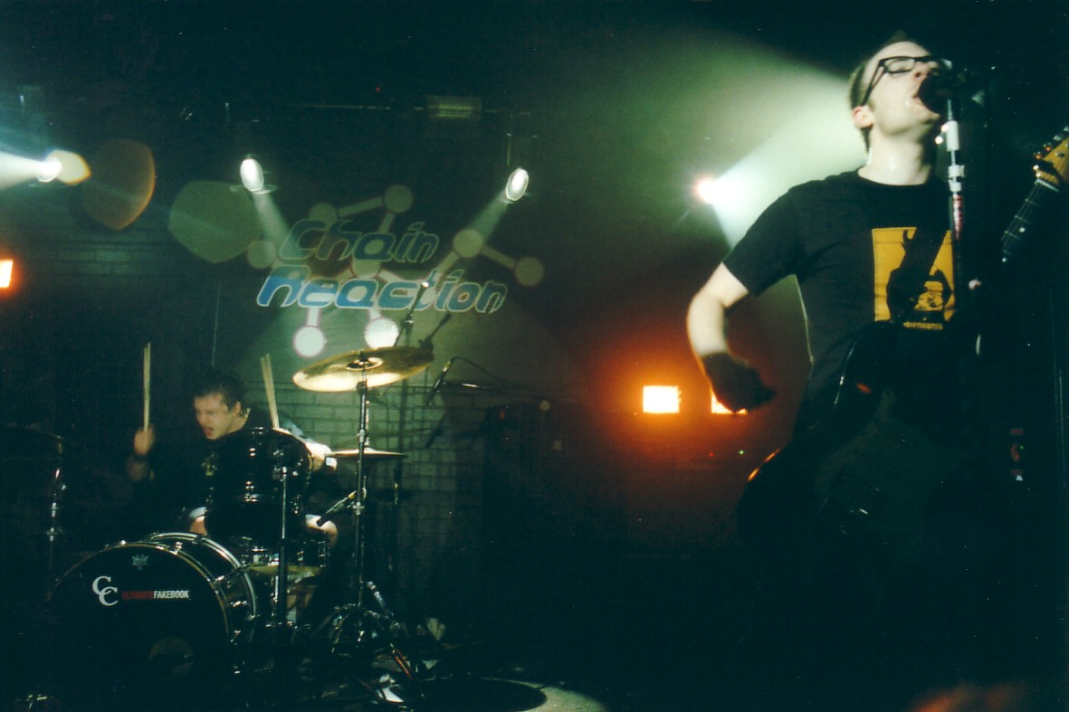 Ultimate Fakebook, mid 2003, Chain Reaction, Anaheim, California,USA